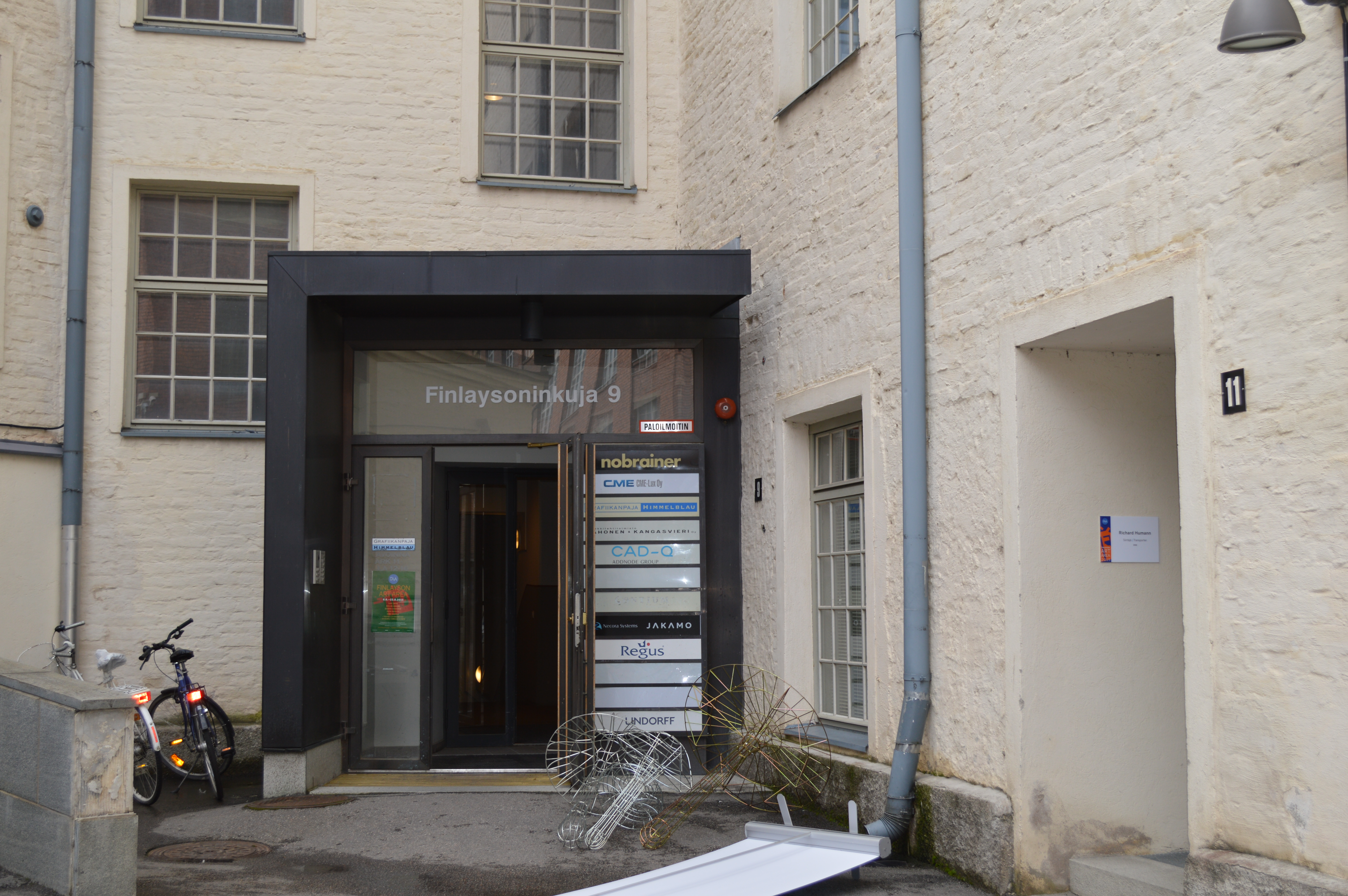 Entrance of Grafiikanpaja Himmelblau